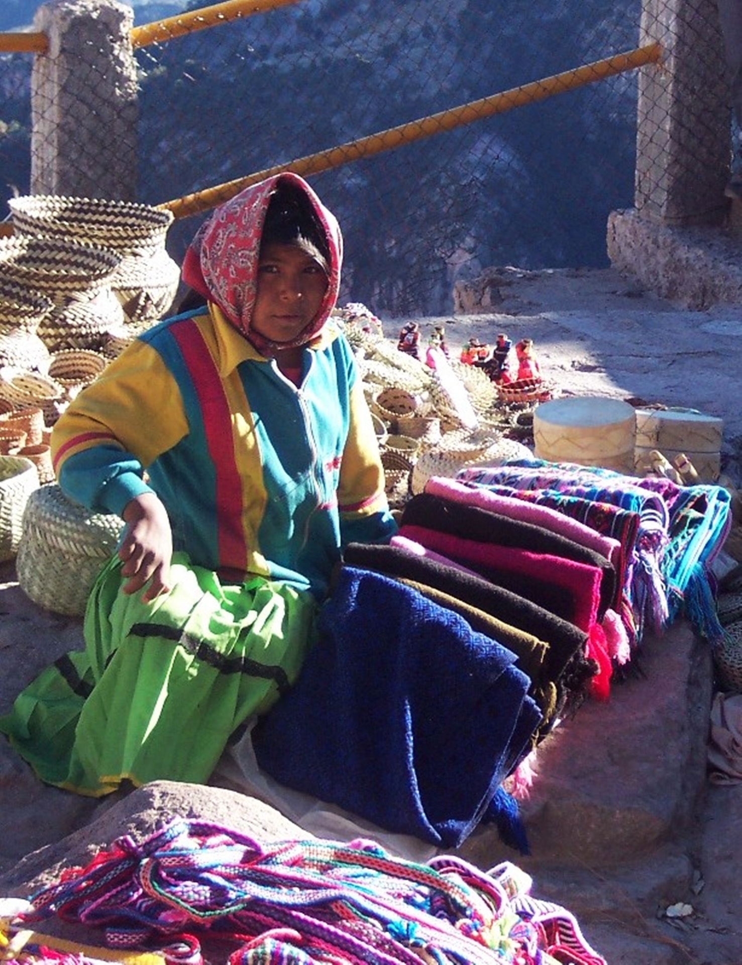 Tarahumara